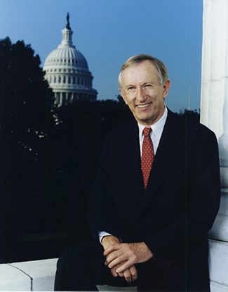 Official photo of U.S. Senator Jim Jeffords